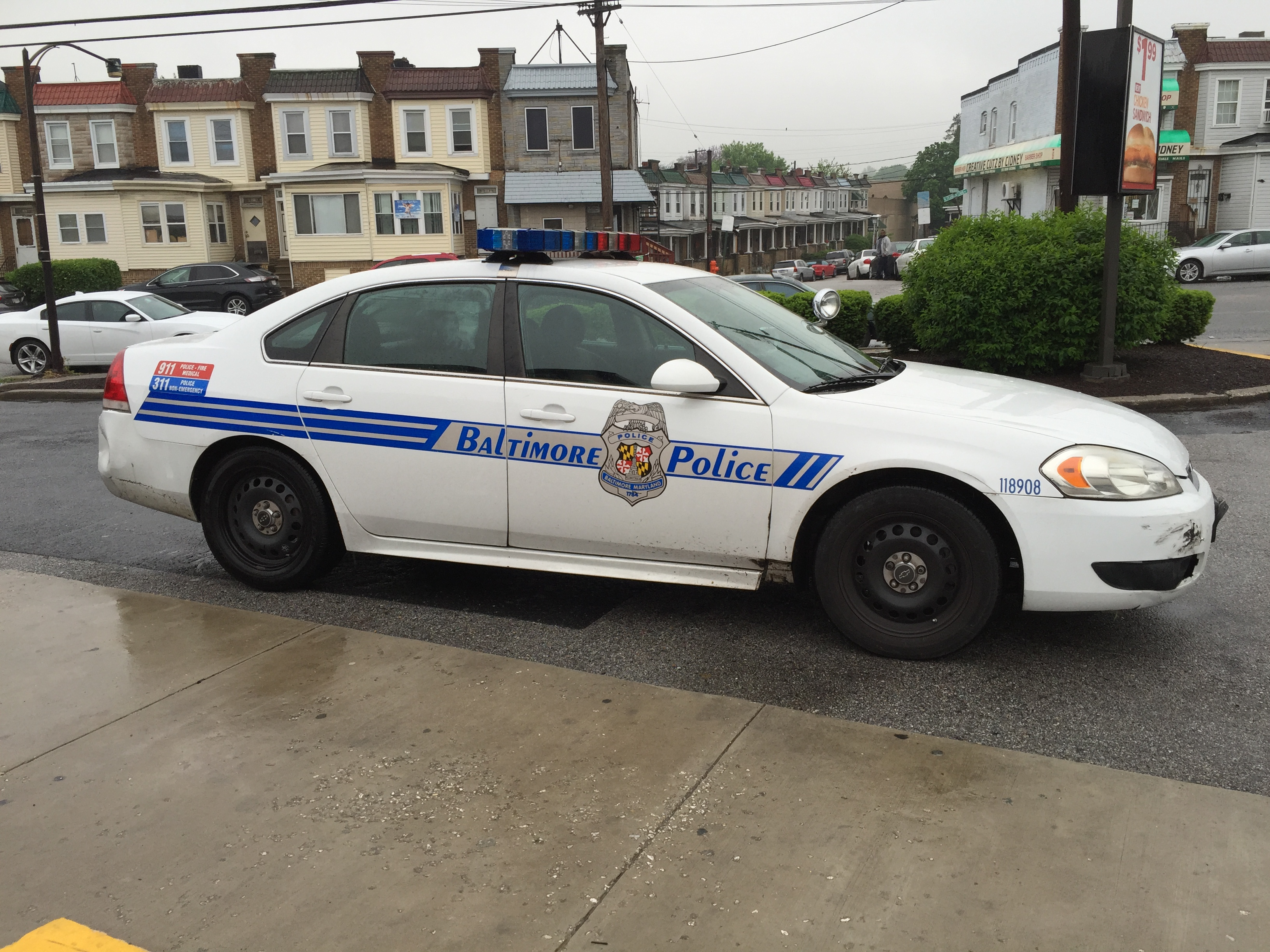 Baltimore City Police Car at the intersection of Franklin Street (U.S. Route 40) and Franklintown Road in Baltimore City, Maryland